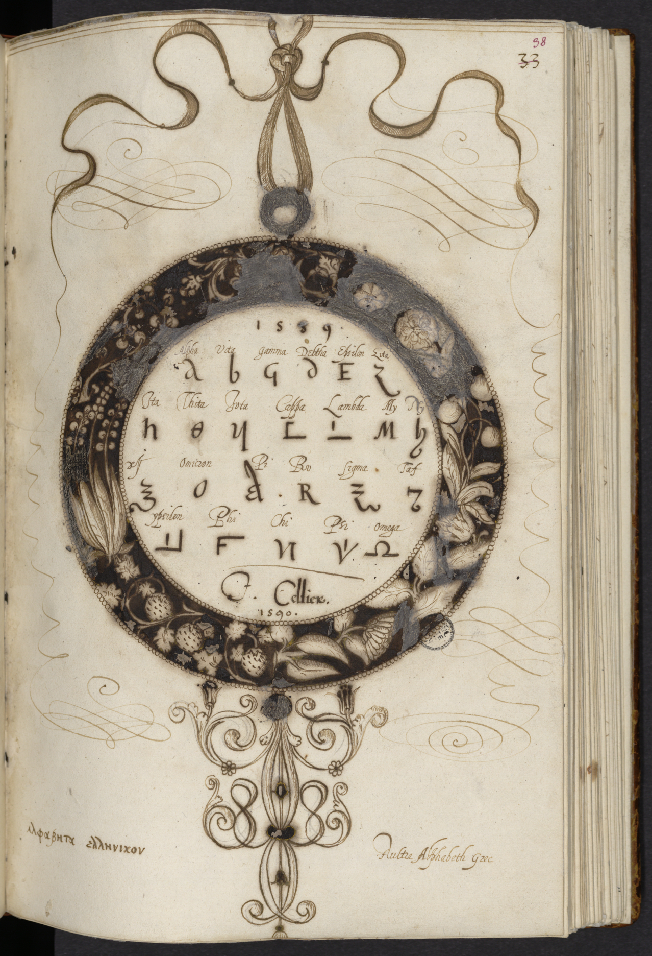 Page from the the 1589 bound manuscript, "Mellange, curiosités et petites inventions de Jacques Cellier...", held at the Bibliothèque Sainte-Geneviève in Paris